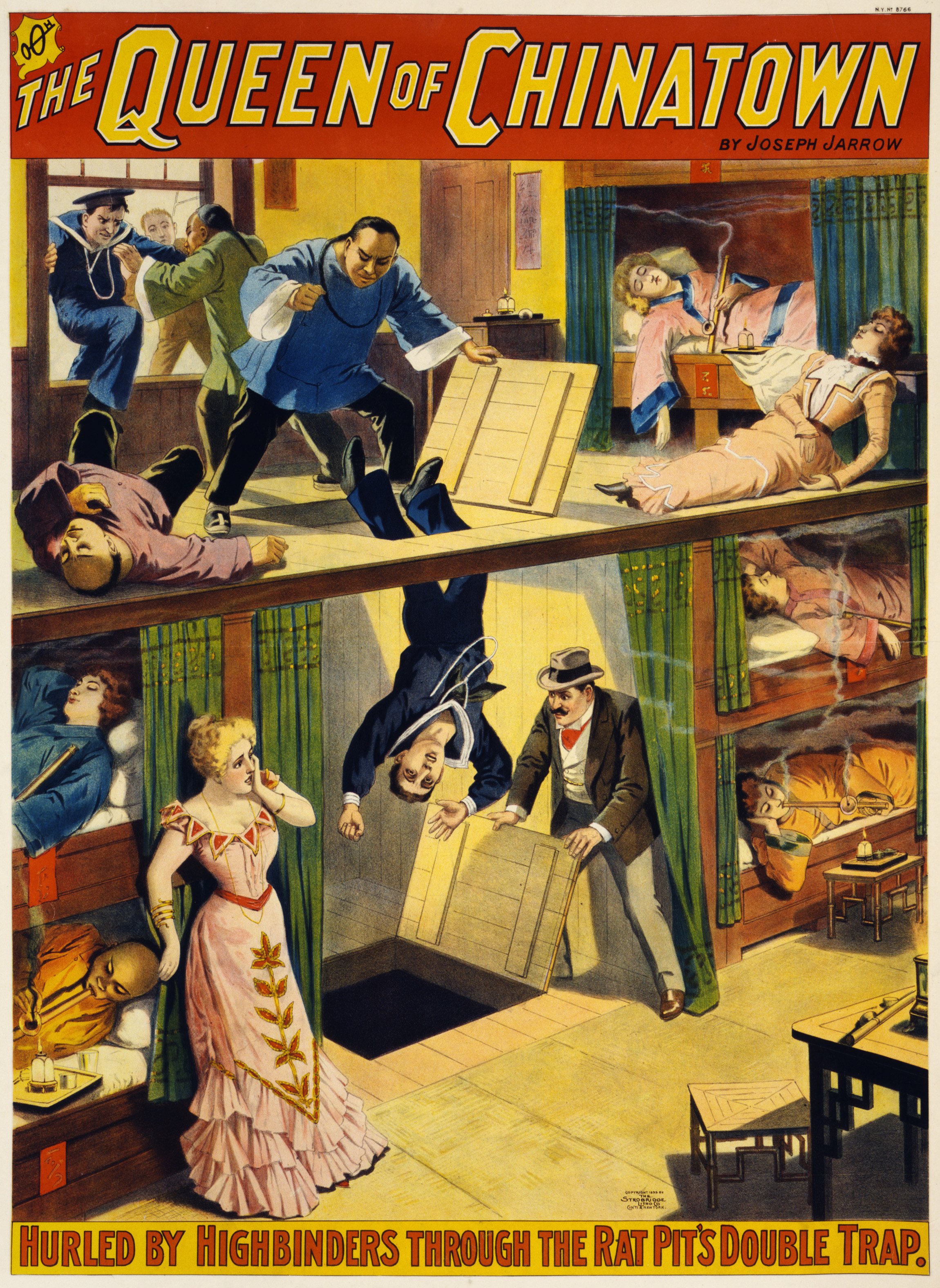 The Queen of Chinatown by Joseph Jarrow. Hurled by highbinders through the rat pit's double trap. Promotional poster for the Broadway melodrama, premiered 19 August 1899. Copyright by The Strobridge Lithograph Co., Cincinnati & New York, 1899. From the Performing Arts Poster Collection at the Library of Congress More Strobridge posters | More performing arts posters [PD] This picture is in the public domain